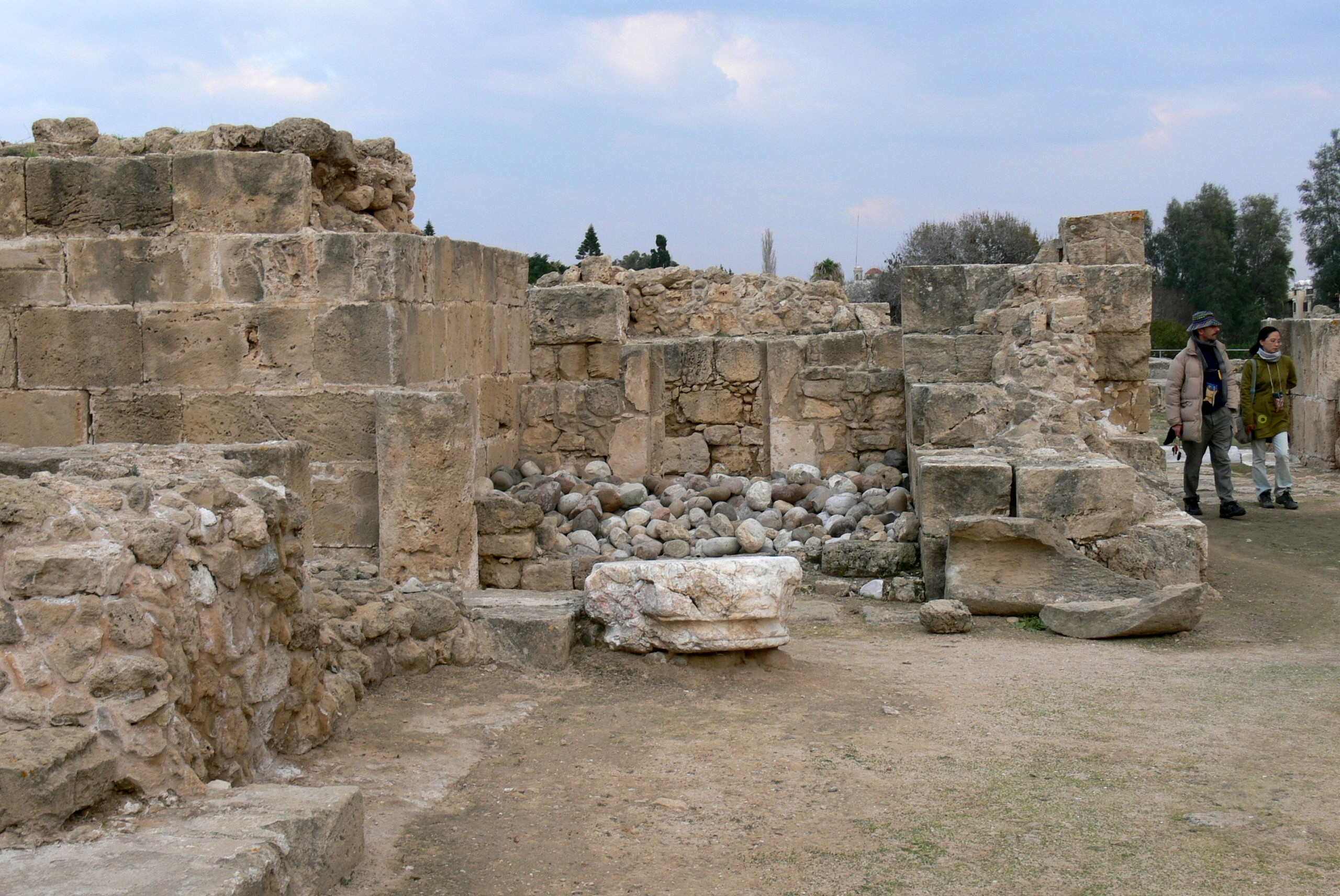 Paphos Archaeological Park. Saranda Kolones castle: Interior courtyard.